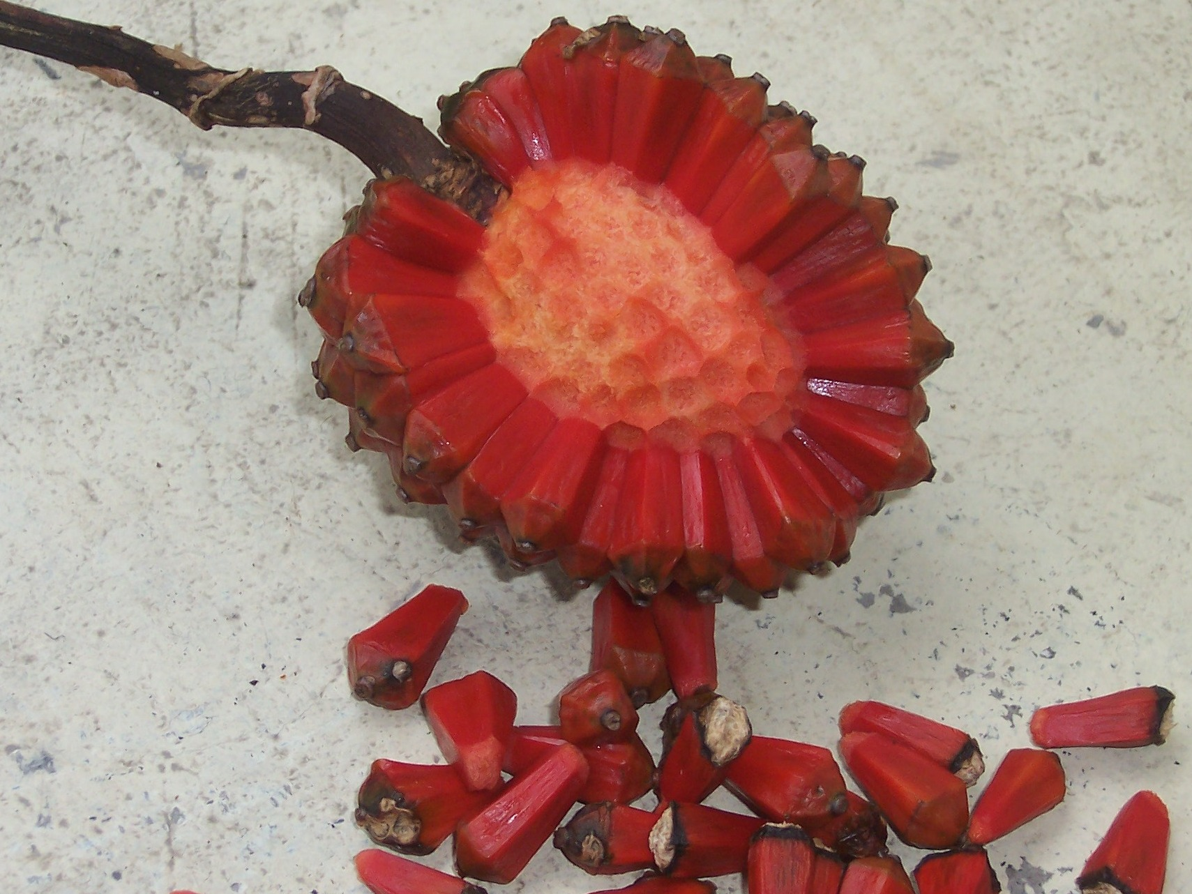 Structure of a Pandanus cone : each scale of the spherical «infrutescence» is an individual fruit. This species = Pandanus montanus (Réunion island)